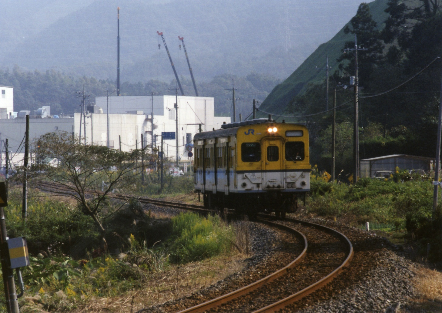 A JR West Kiha 30 running between Omine and Minami-Omine stations